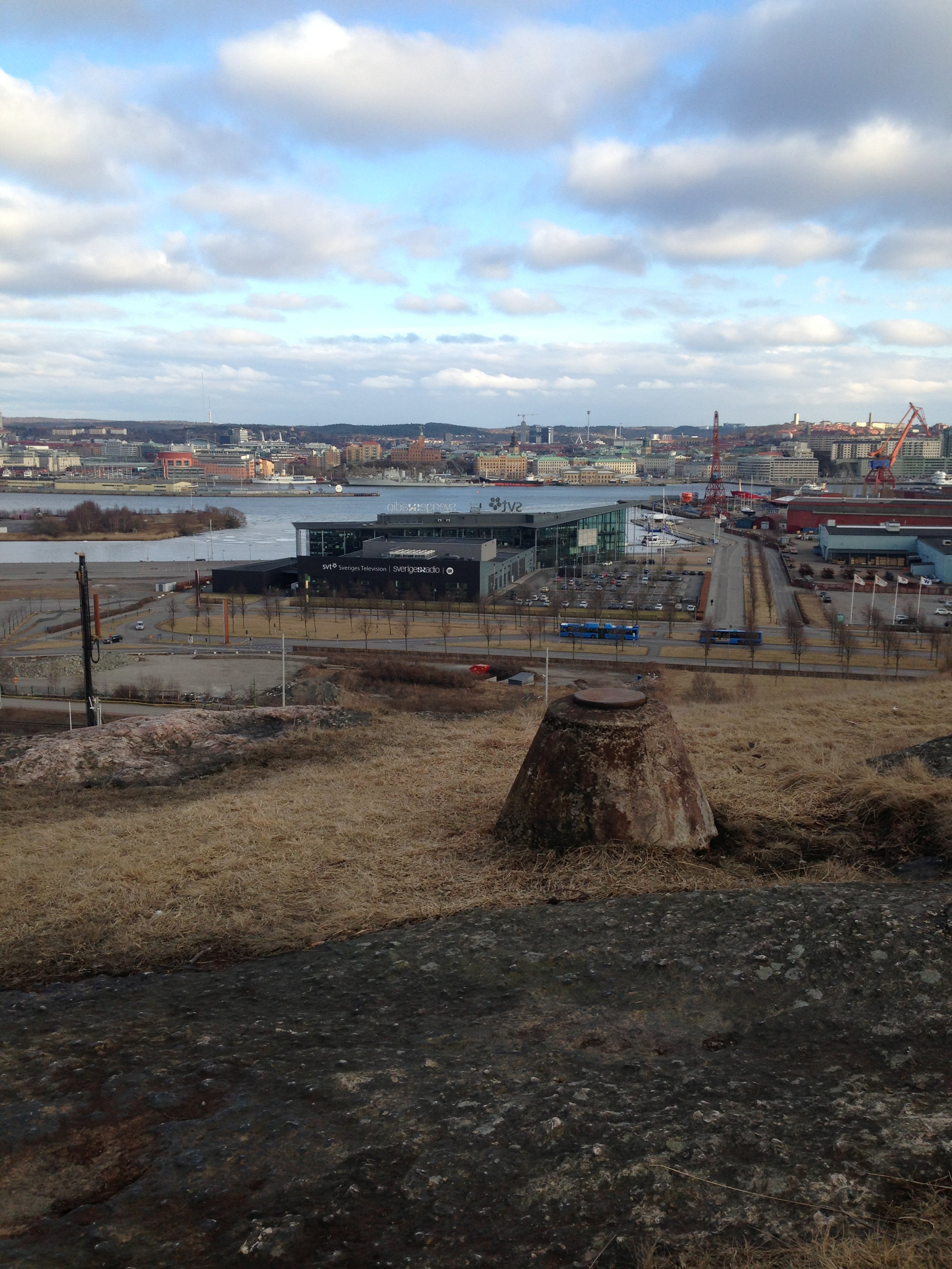 Kanalhuset as seen from Ramberget, 2013